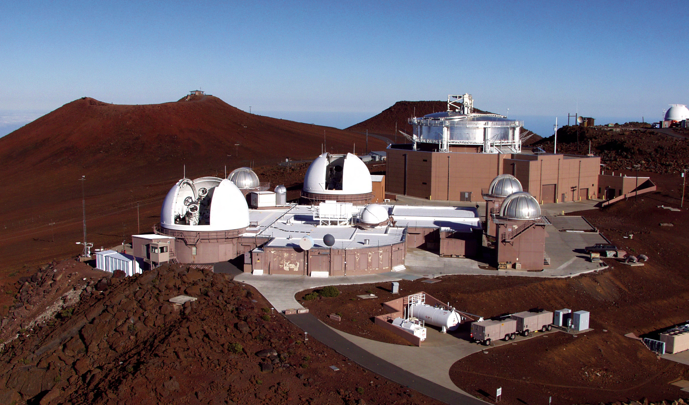 AN/FSQ-114 Ground-Based Electro-Optical Deep Space Surveillance (GEODSS) Unit location: Det. 3, 21st Operations Group, Maui, Hawaii. Mission: Space surveillance — to detect, track and identify more than 2,500 objects in deep-space orbits. Provides photometric space object identification. Aperture opening: 40 inches Range: 3,000 miles to greater than 22,000 miles.